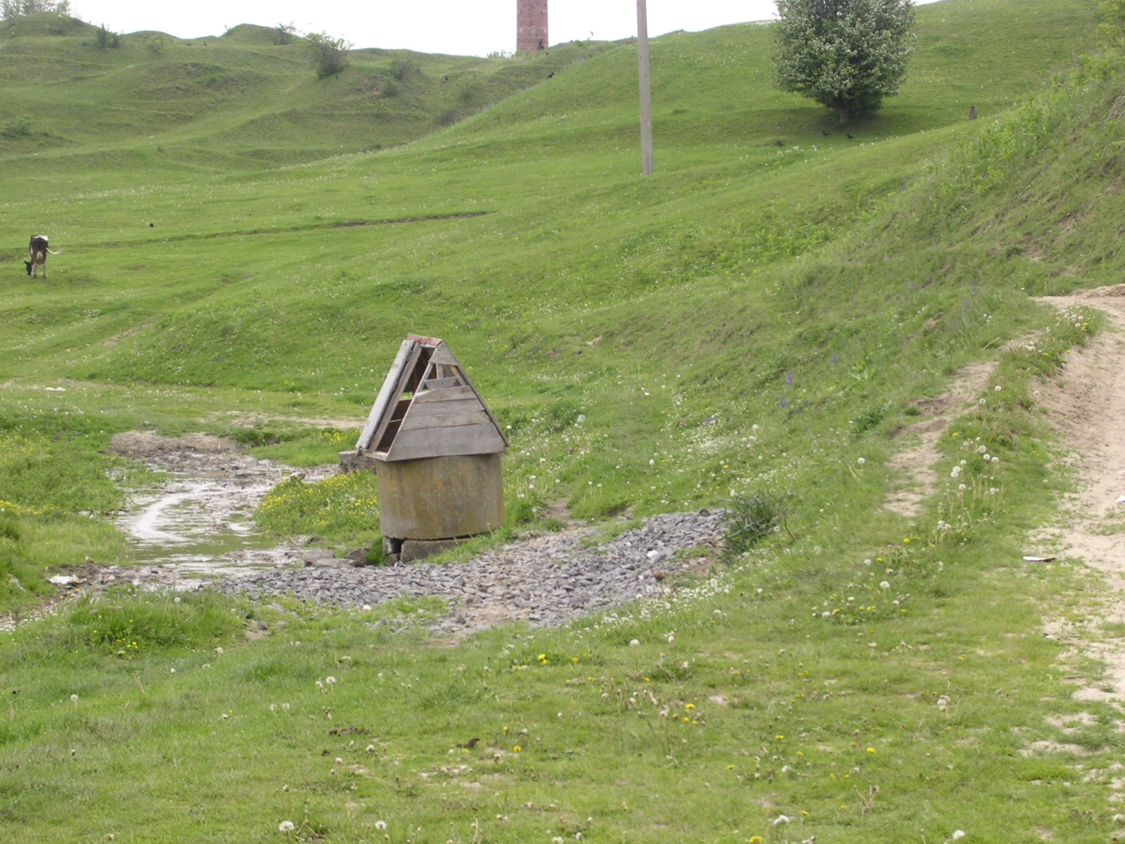 (Keywords: Rabbi Yisroel ben Eliezar, Baal Shem Tov, Medzhibozh) A hand-dug well just outside of Medzhibozh thought to have been dug by the Baal Shem Tov himself. The well still flows clean water.